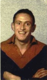 Photo of Bob McKenzie taken in 1949